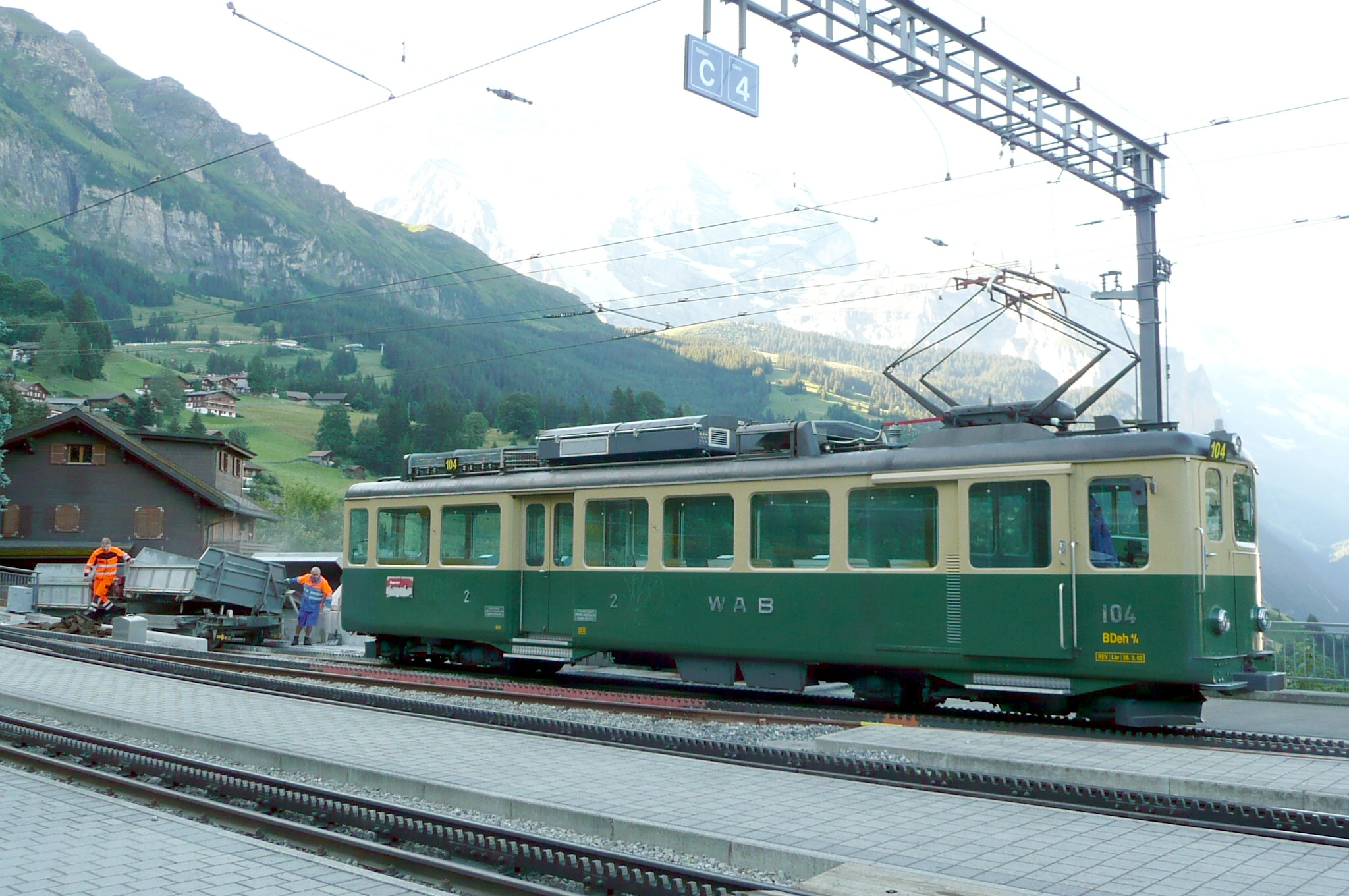 Wengernalp rack railway. Motor coach BDhe 4/4 104 of 1951 used as cargo mover with new traction arrangement 2005 from Vossloh-Kiepe GmbH Duesseldorf. With double dump wagon Fk-u 807 in Wengen station – 2009-08-05